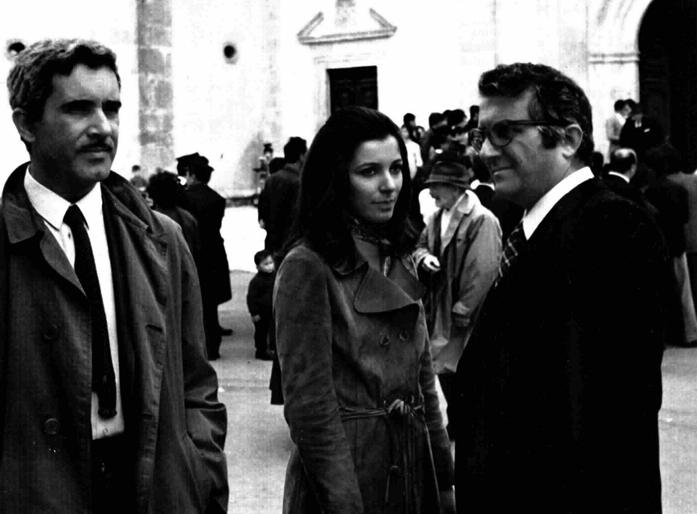 Italian actors Mico Cundari, Stefania Casini and Corrado Olmi